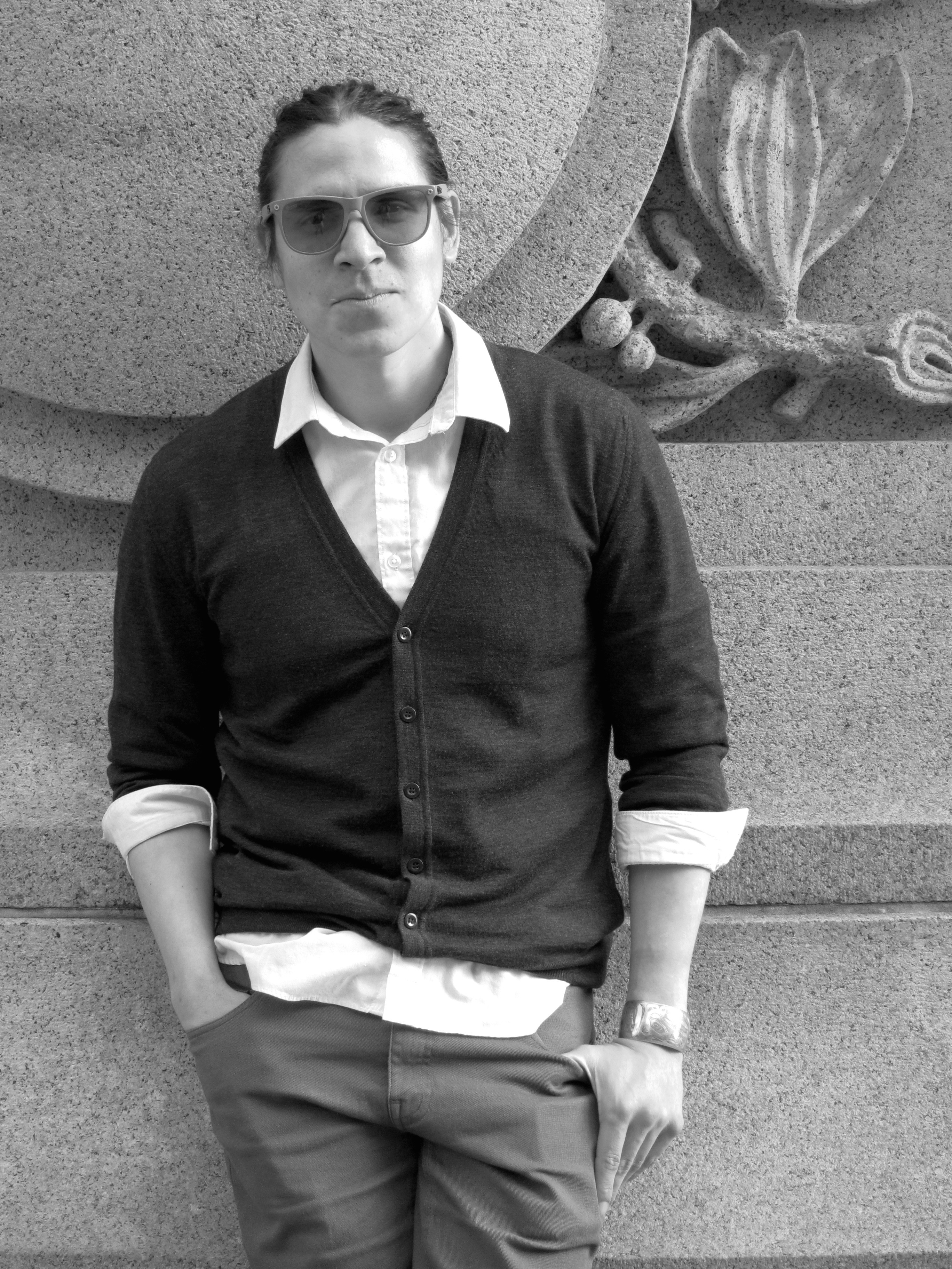 Nicholas Galanin in New York in May, 2011. Photo by Lia Chang